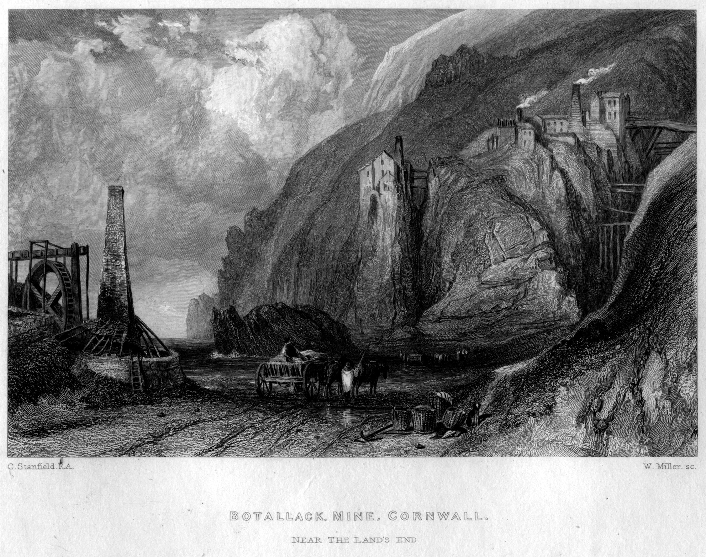 Botallack Mine, Cornwall, engraving by William Miller after Clarkson Stanfield, published in Stanfield's Coast Scenery. a Series of Views in the British Channel, from Original Drawings Taken Expressly for the Work. Clarkson Stanfield. Smith, Elder and Co., London, 1836